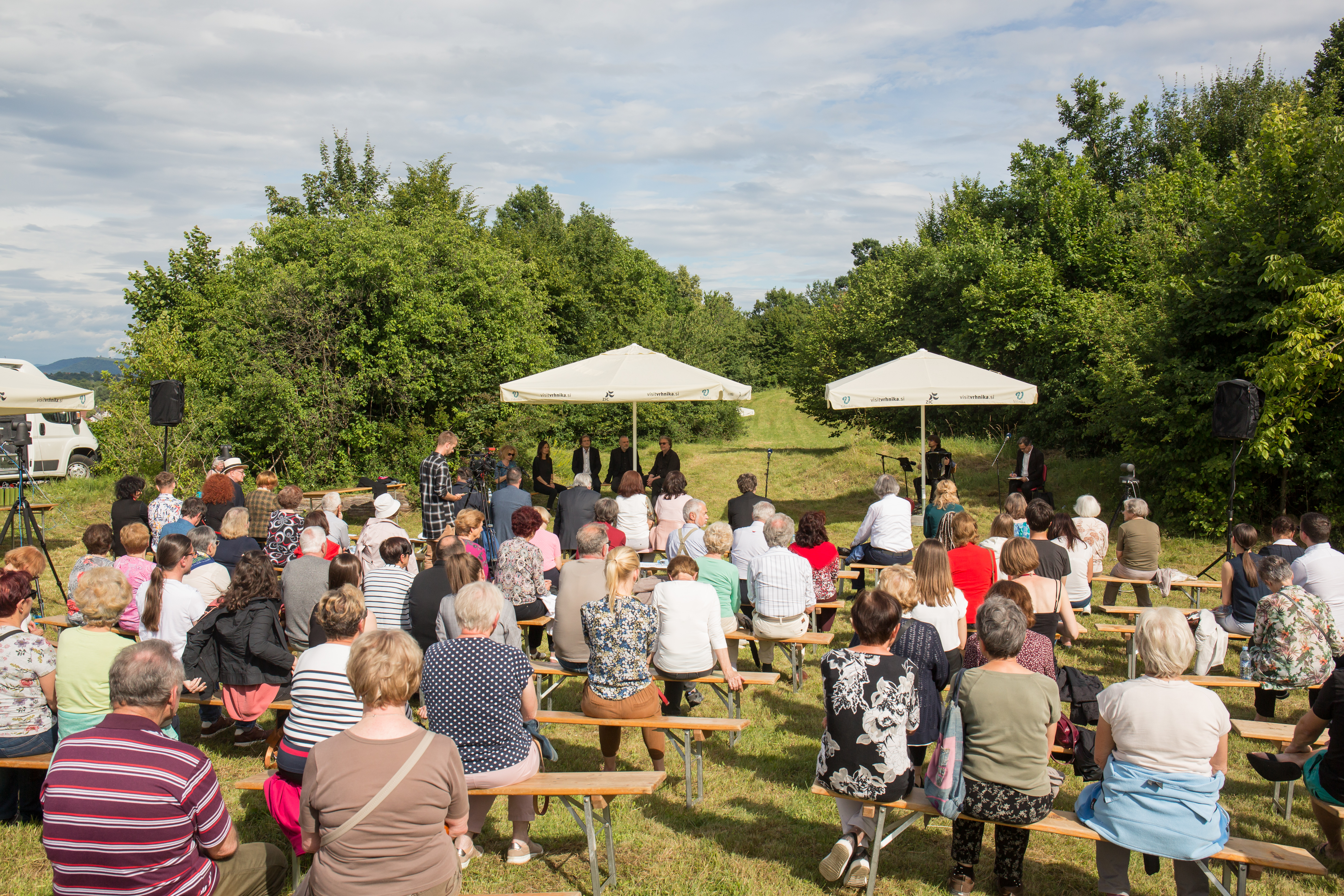 The inaugural Cankar Award ceremony took place in Cankarjev laz near Vrhnika. Pictured here just before it began.